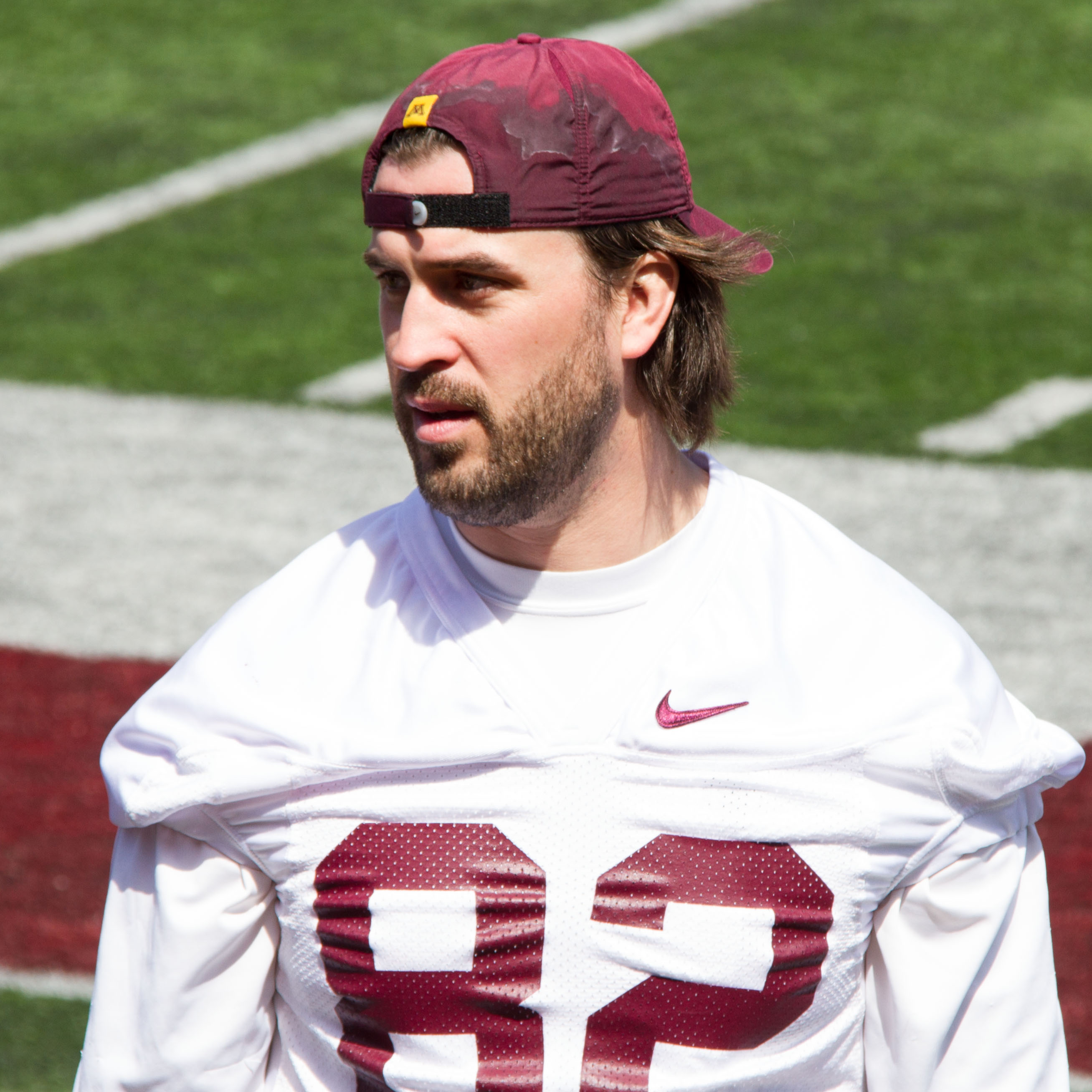 Ben Utecht at the Minnesota Golden Gophers football team's 2013 Spring Game in TCF Bank Stadium, Minneapolis, Minnesota, USA.